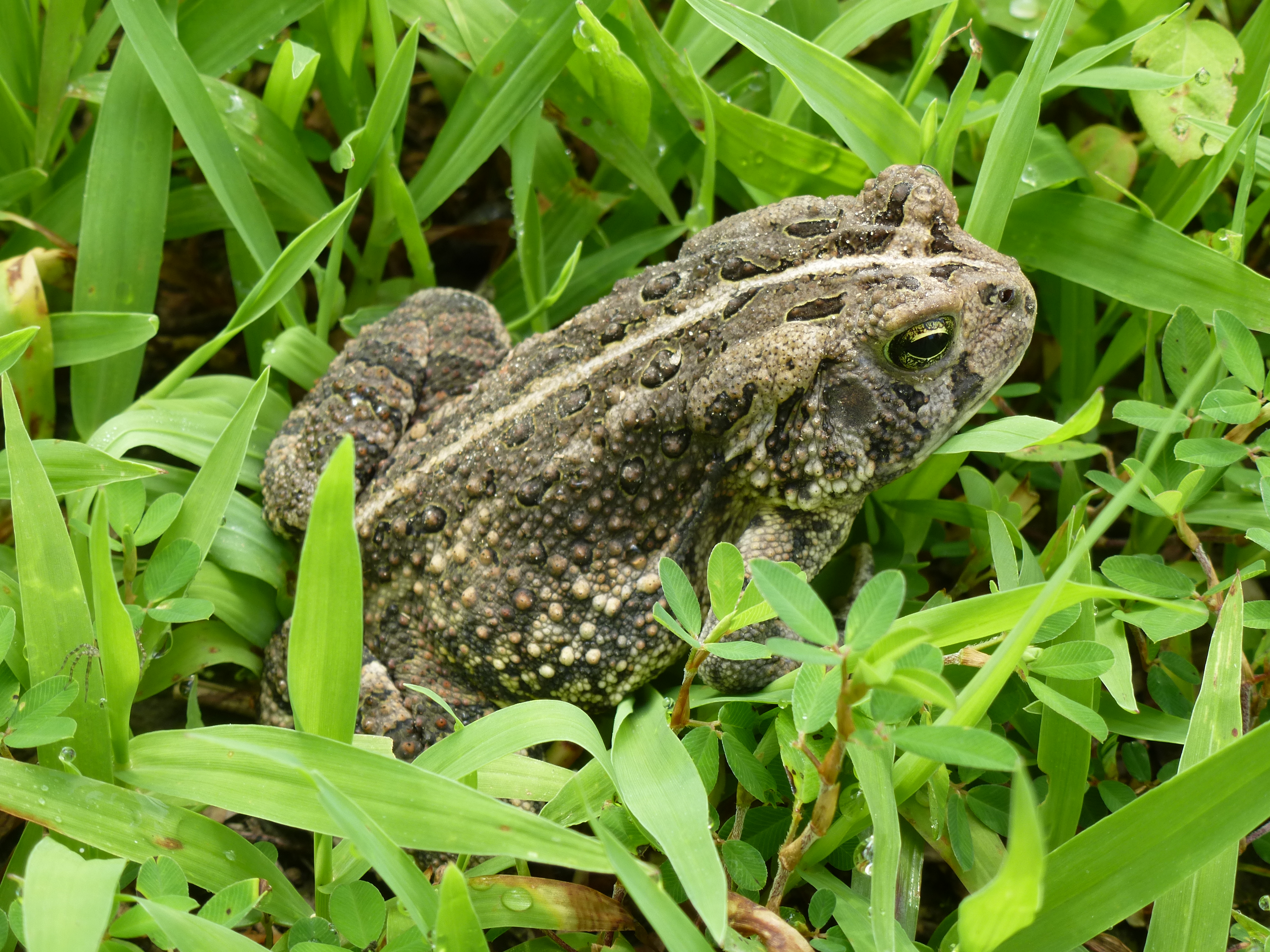 Fowler's toad (Anaxyrus fowleri, formerly Bufo fowleri) in the Missouri Ozarks